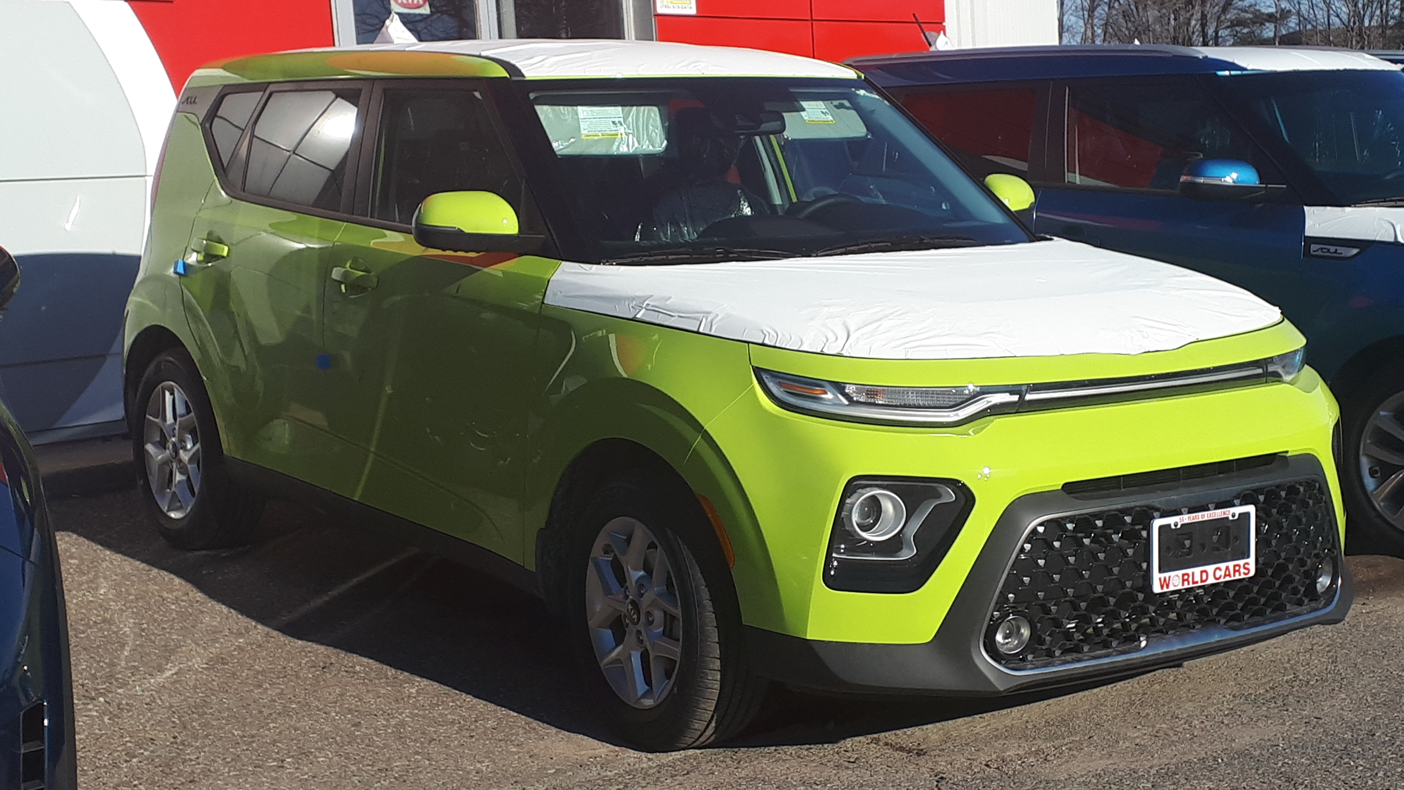 2020 Kia Soul EX photographed in Sault Ste. Marie, Ontario, Canada